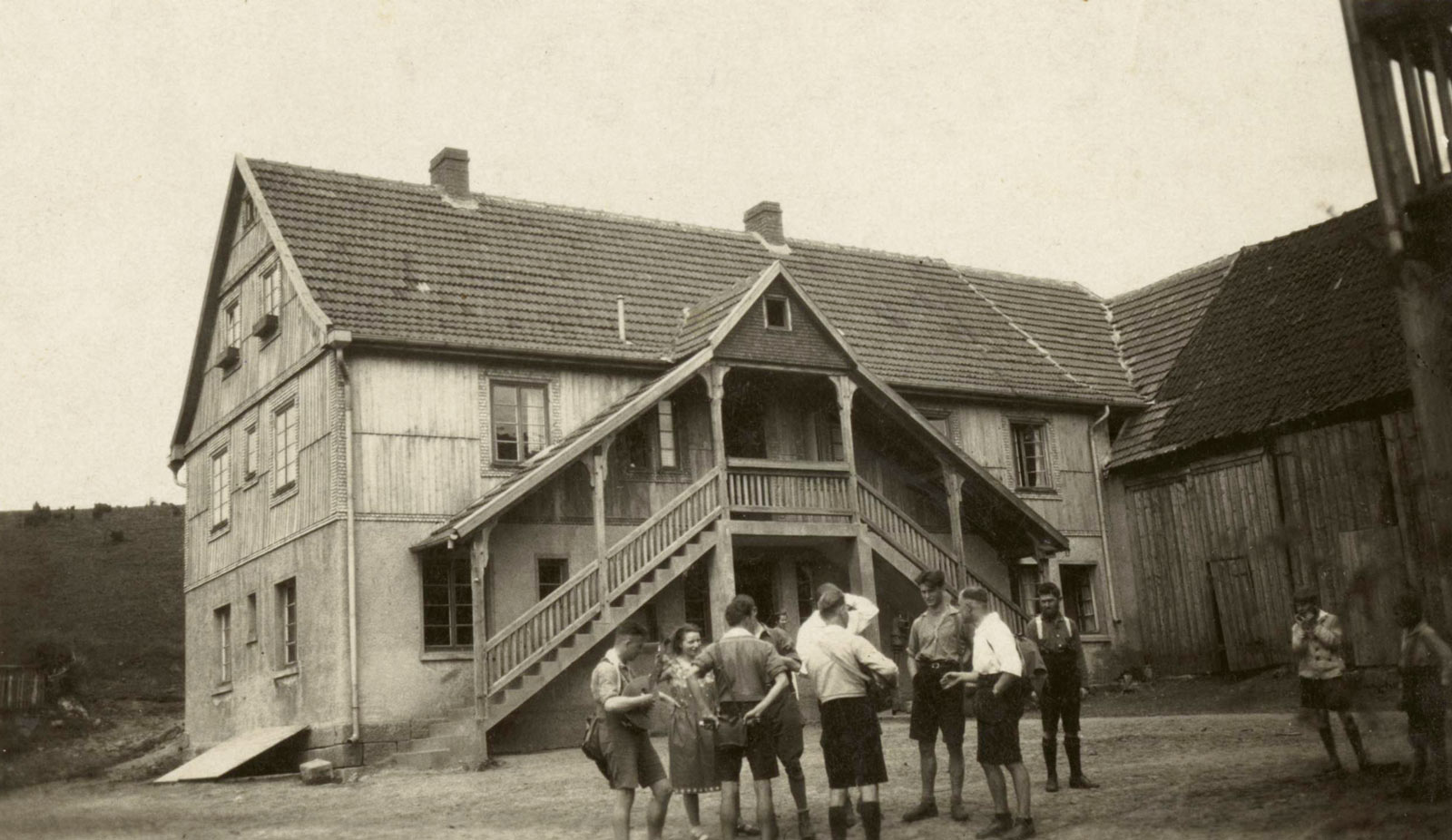 A building on the Rhon Bruderhof